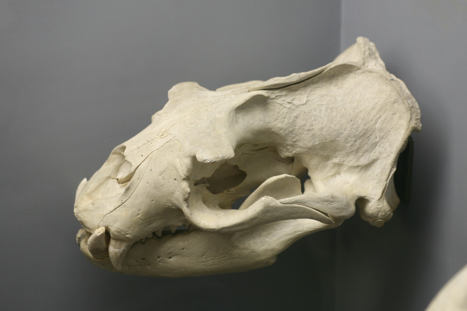 Steller Sea Lion (Eumetopias jubata) skull